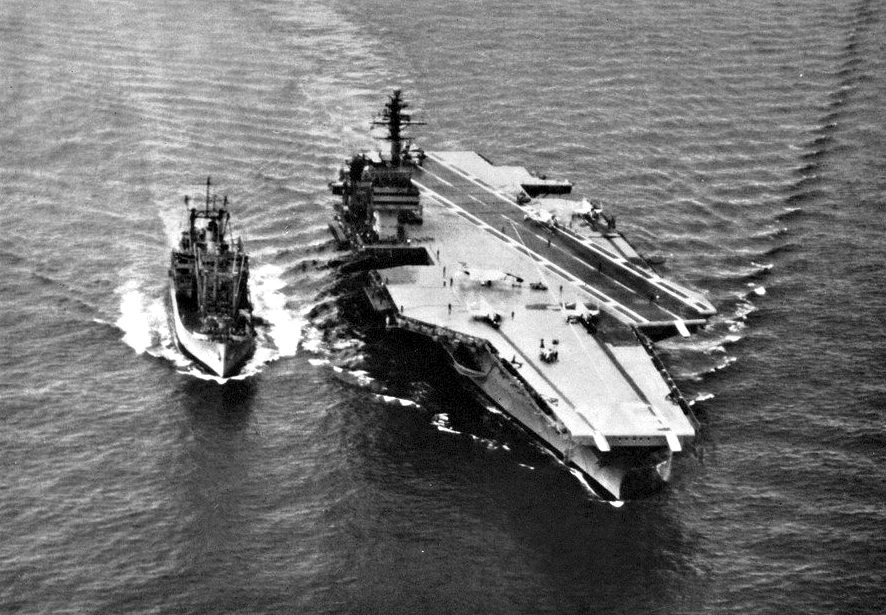 The U.S. Navy ammunition ship USS Firedrake (AE-14) replenishing the aircraft carrier USS Constellation (CVA-64).